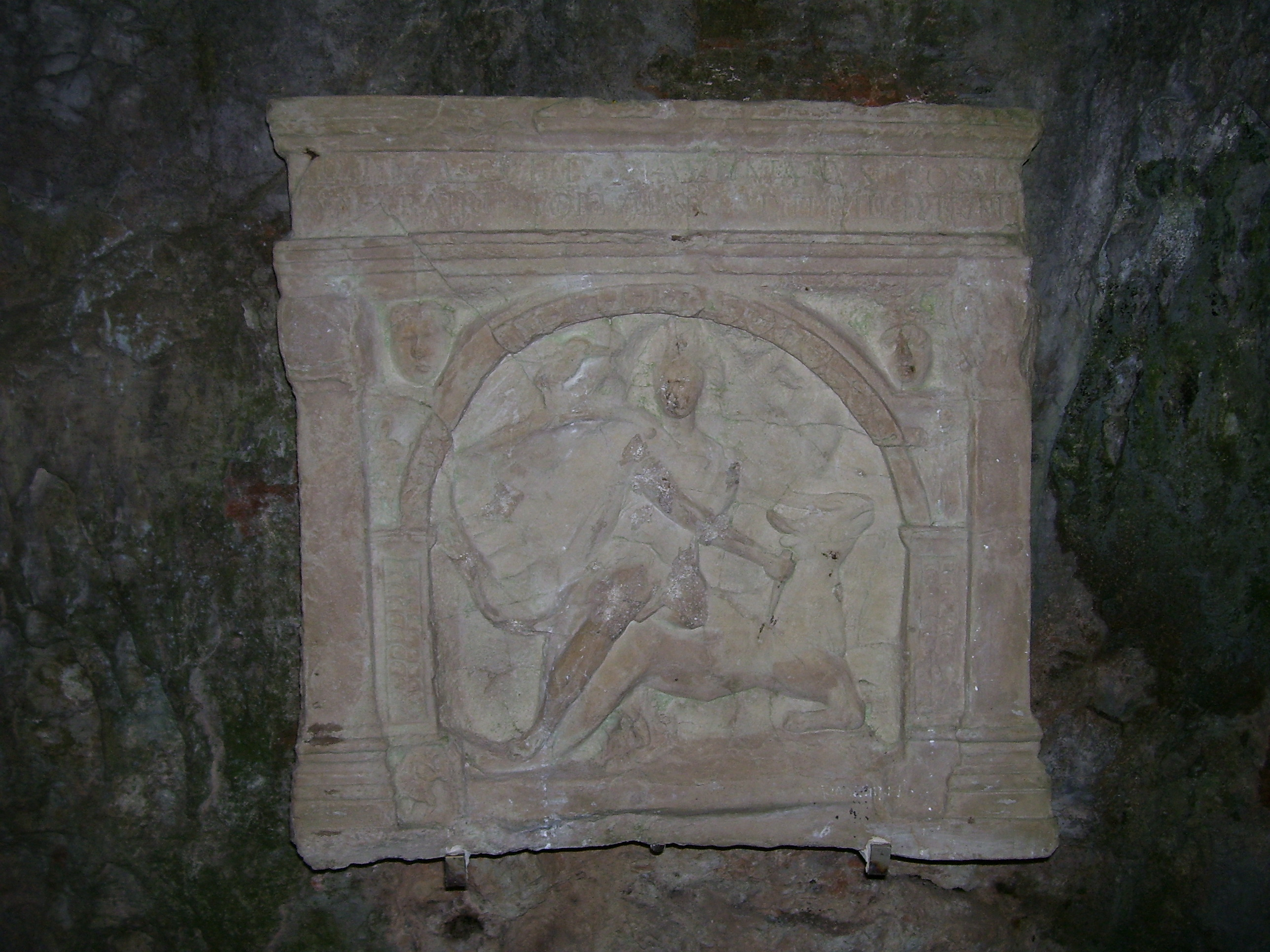 Central dedication stone in worship-cave of God Mitra, Duino, Trieste, Italy.